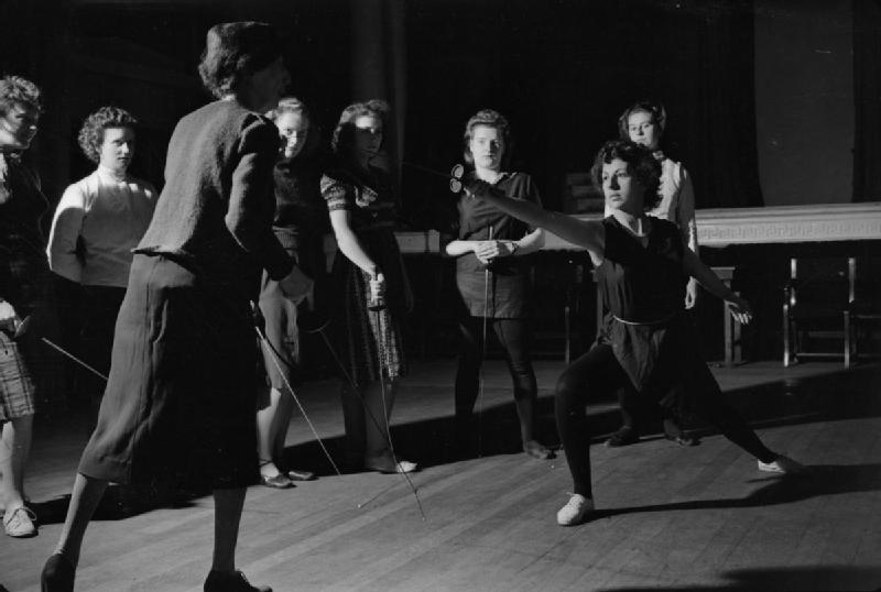 Royal Academy of Music- the work of the Royal Academy in Wartime, London, England, UK, 1944 At the Royal Academy of Music, Mademoiselle Helene Bertrand (left) leads a lesson in fencing. According to the original caption, this is "an essential part of the course in Speech and Drama, [as it] gives students poise". The original caption also states that Mlle. Bertrand is the daughter of a famous fencing instructor.